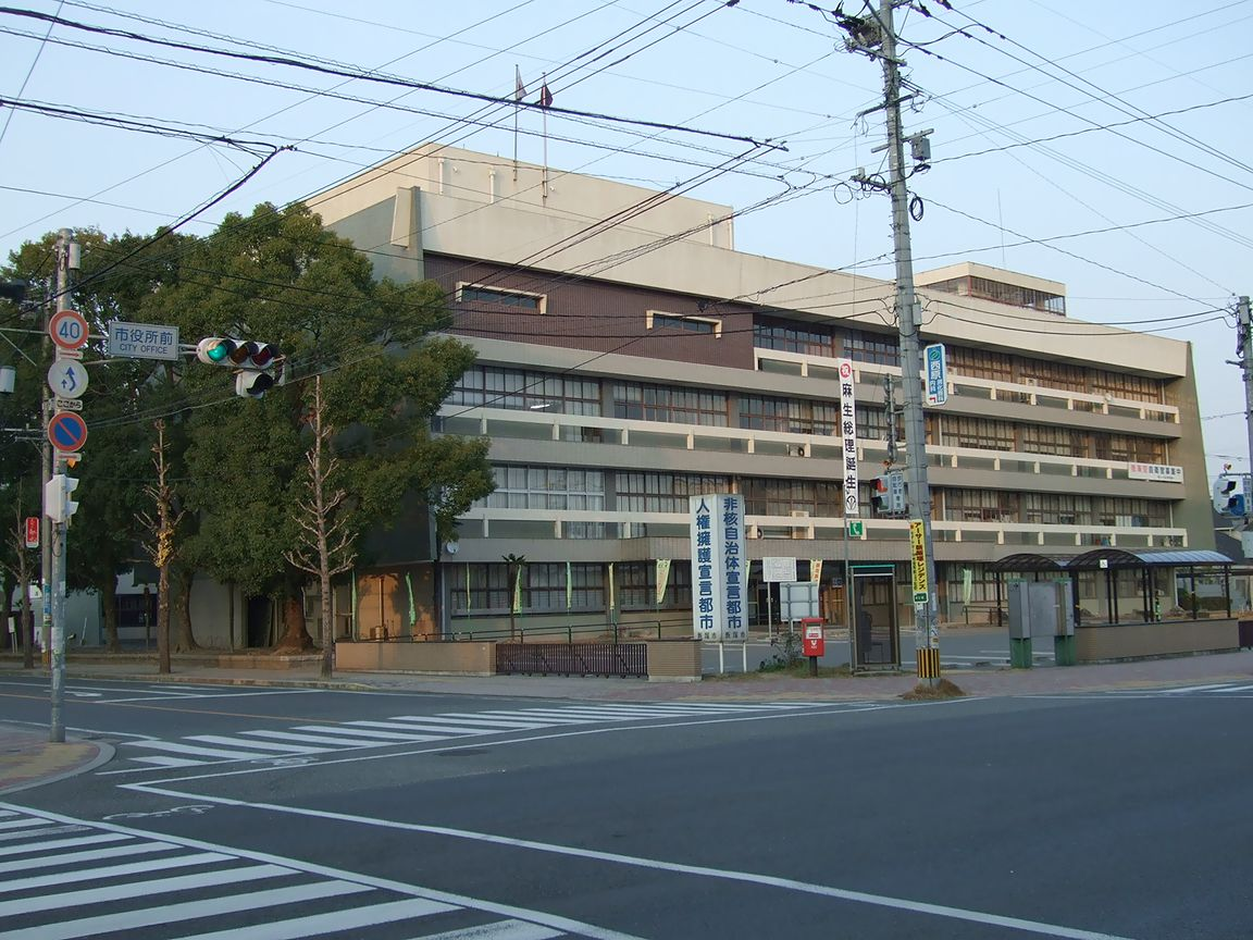 Iizuka City office